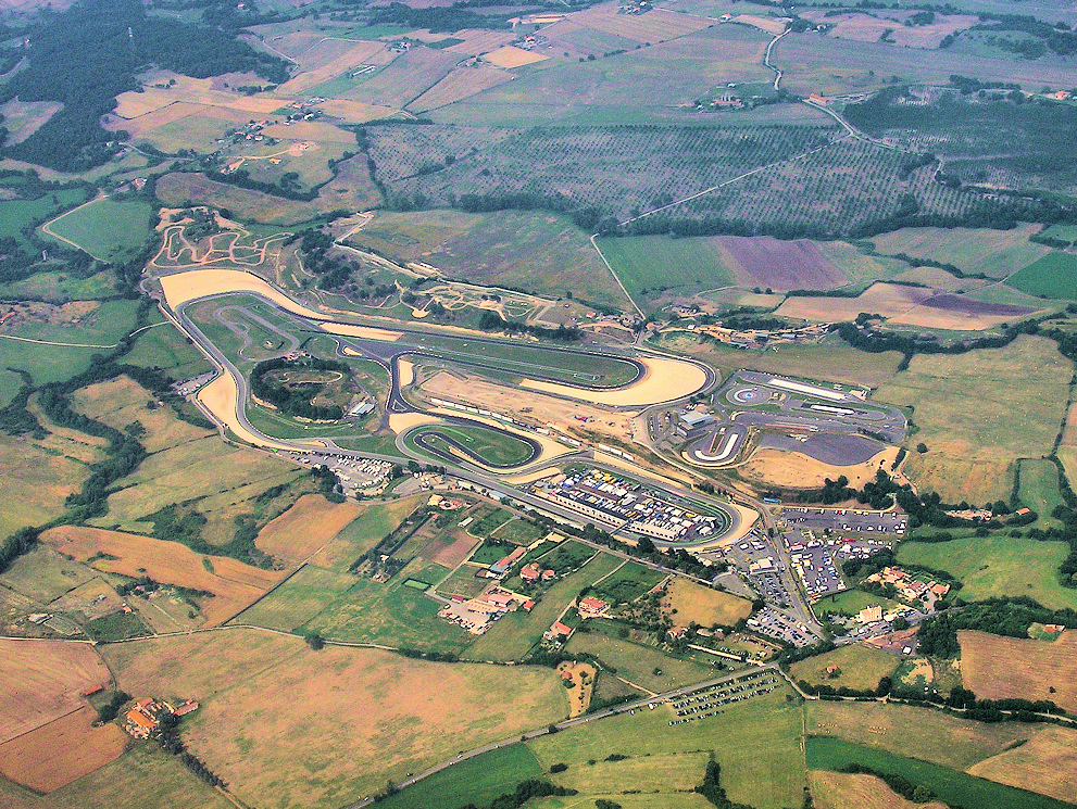 The race circuit at Vallelunga, Rome, Italy (Autodromo di Vallelunga). The circuit length (including the post-1985 extension) is 2.538 miles (4.085 km). Races are run clockwise. Photographed from an easyJet Airbus A319 on a flight from Bristol, England, to Rome.